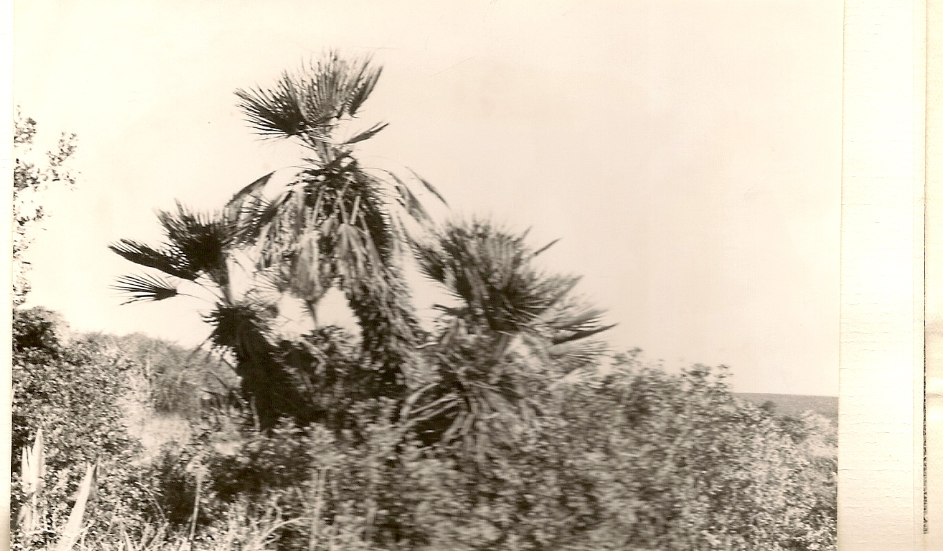 A bunch of palmettos in Morocco, oued Mellah valley.